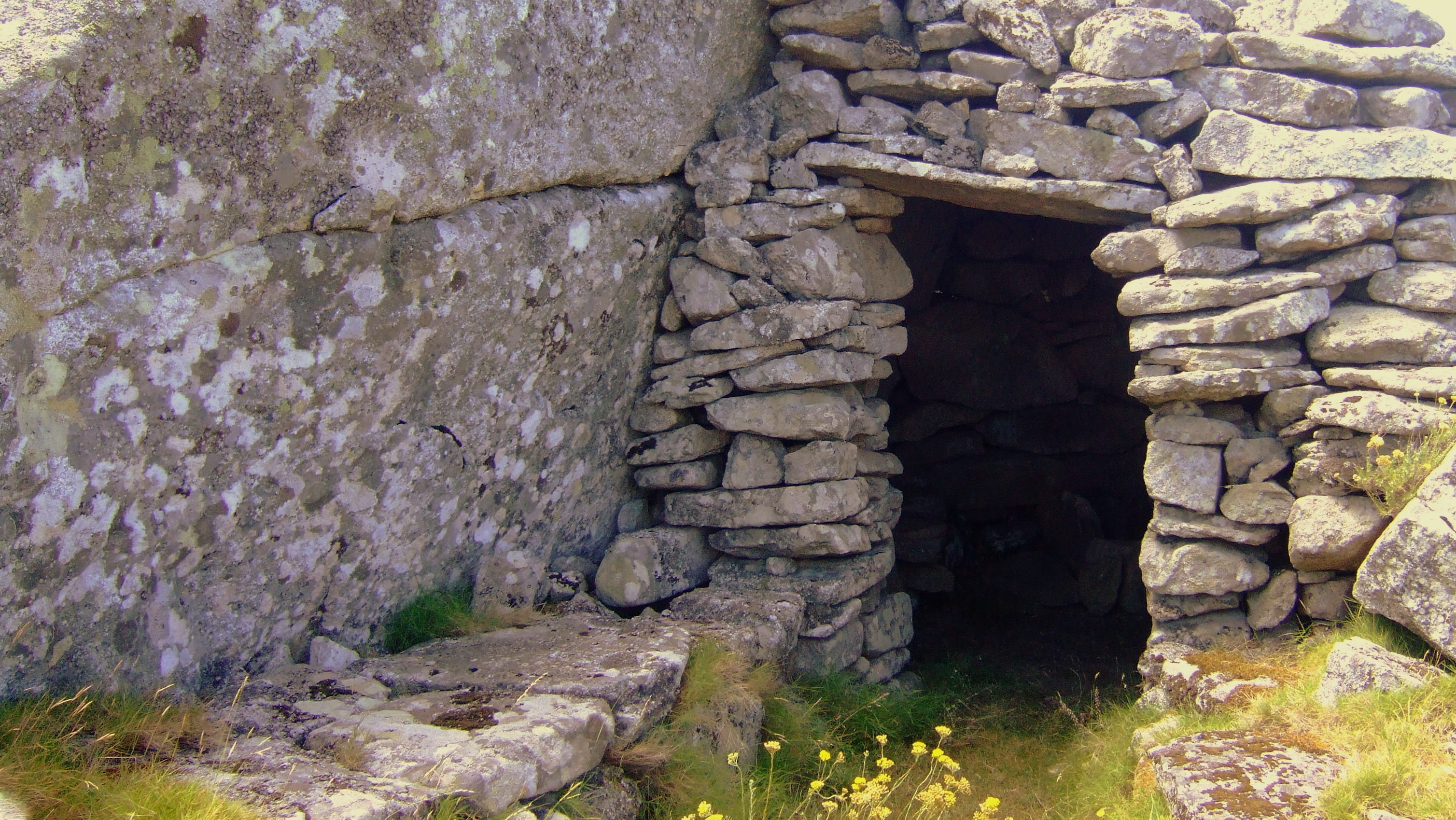 Elba island